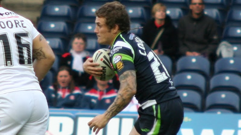 Ben Cockayne